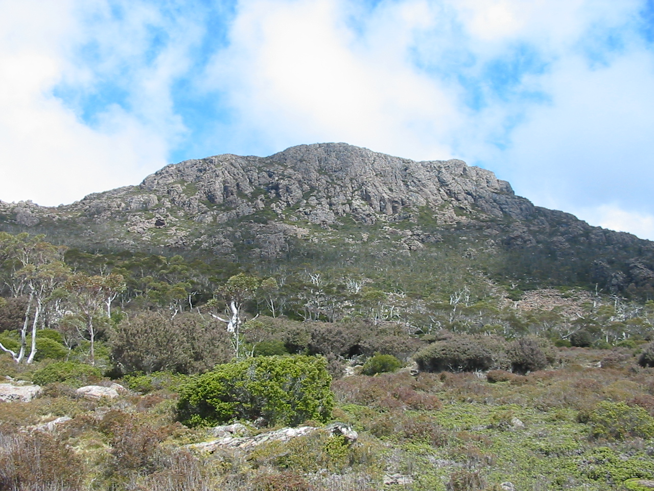 Ironstone Mountain on the island of Tasmania, Australia.